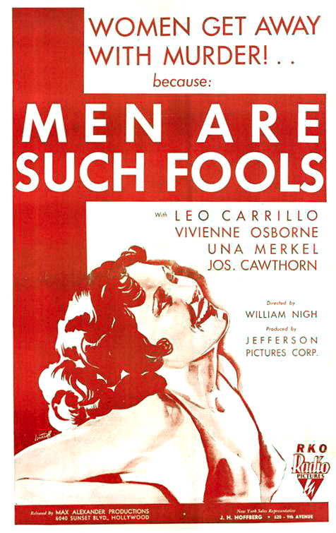 Poster for the 1932 film Men Are Such Fools. The item has no copyright markings on it as can be seen in the links above.